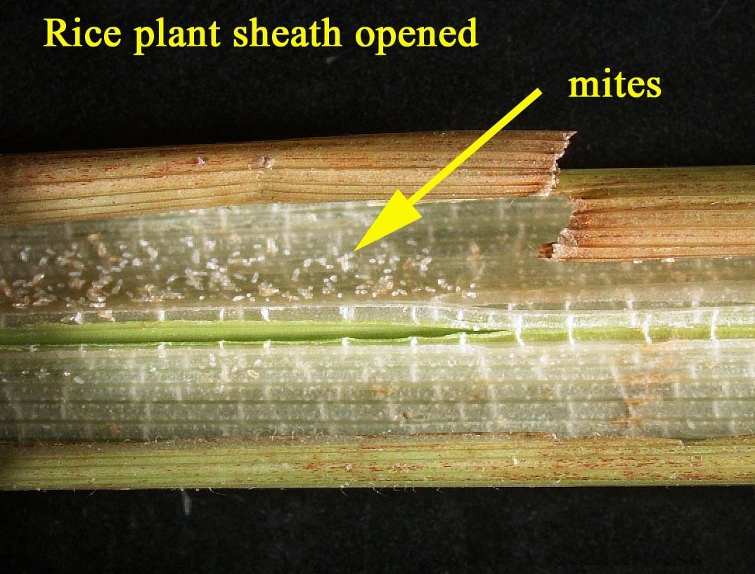 Panicle rice mite - Steneotarsonemus_spinki_- damage to rice plant.